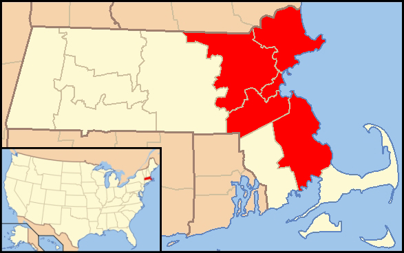 Map of the Catholic Archdiocese of Boston in the USA.